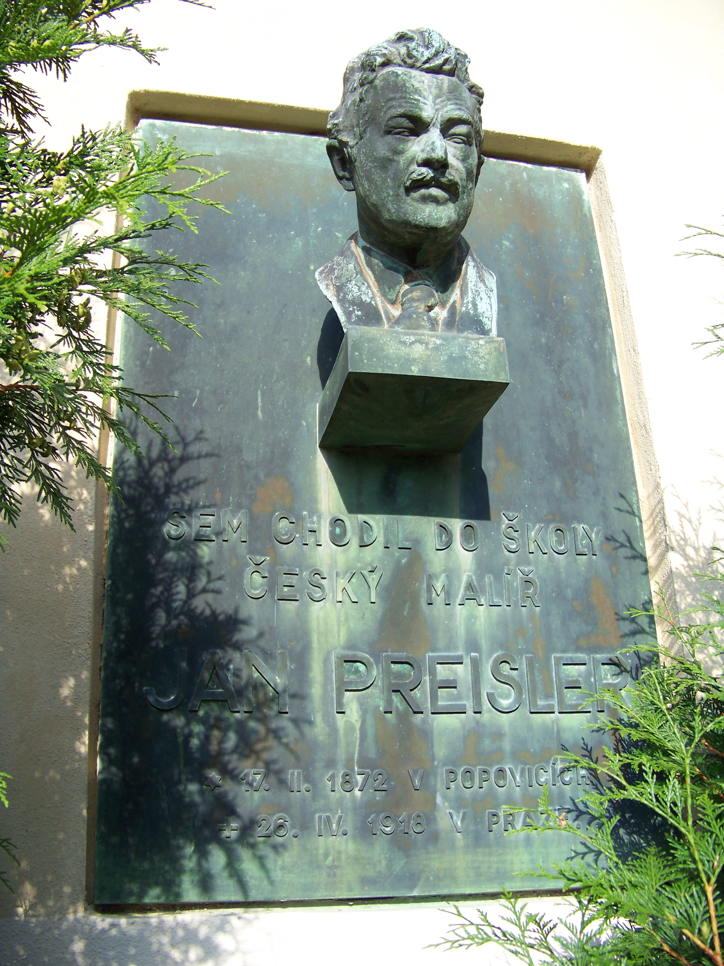 Králův Dvůr-Počaply, Beroun District, Central Bohemian Region, the Czech Republic. Preisler's Square, a special school, Jan Preisler plaque.